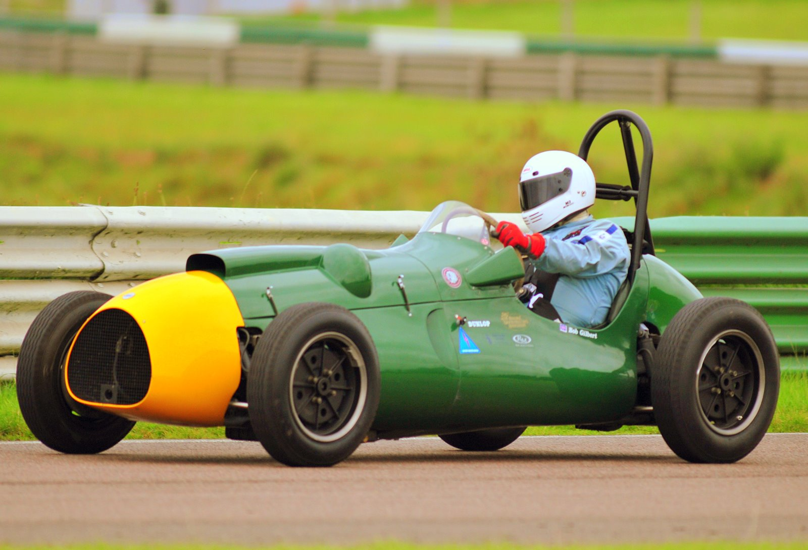 A Mark II Cooper Bristol Formula Two car, being put through its paces at Mallory Park, August 2009.